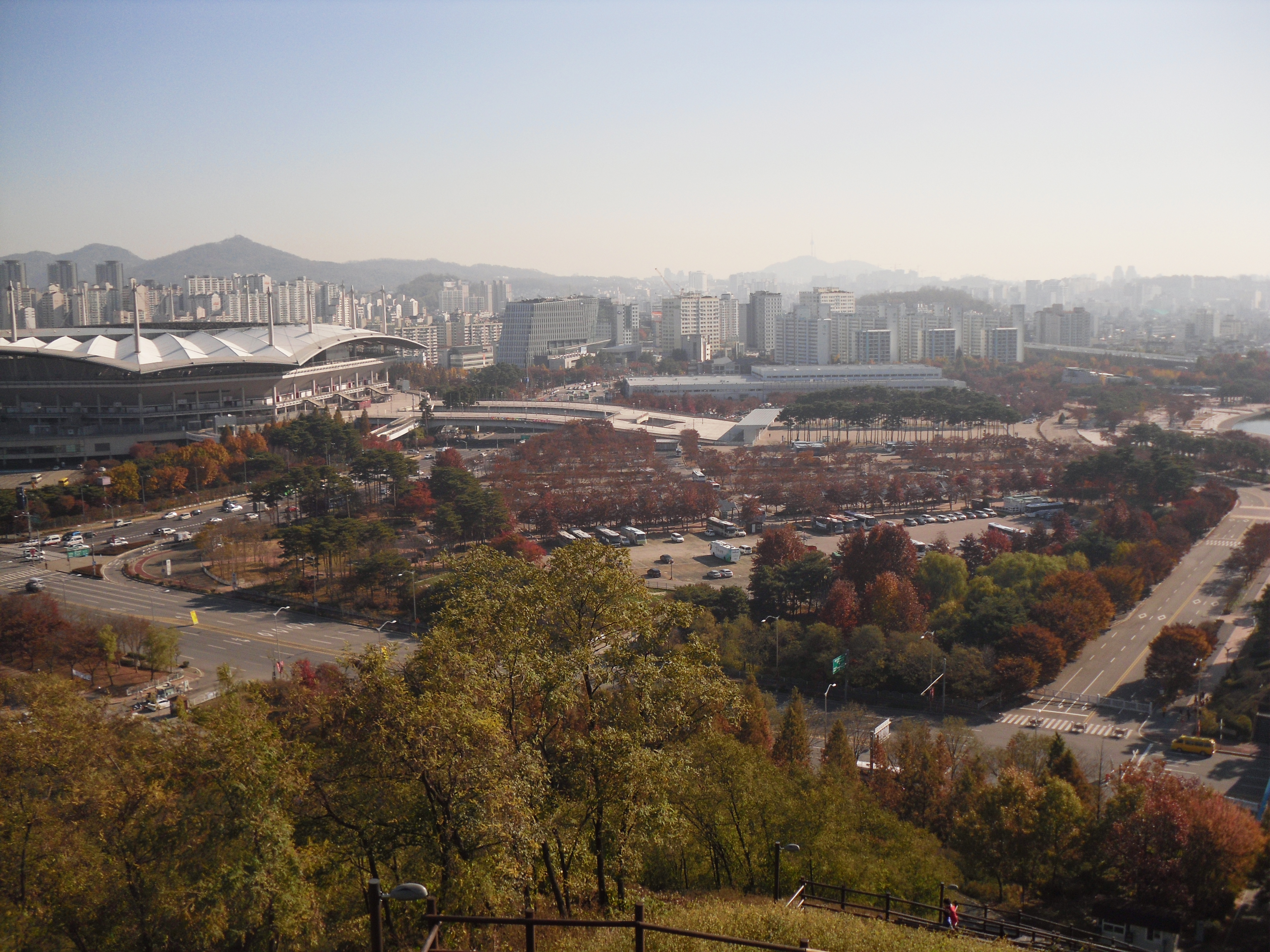 Korean World Cup Park view